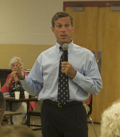 John C. Carney, then-Lt. Governor of Delaware, speaking at a campaign event, during his 2008 gubernatorial campaign. Photo taken June 23, 2008.